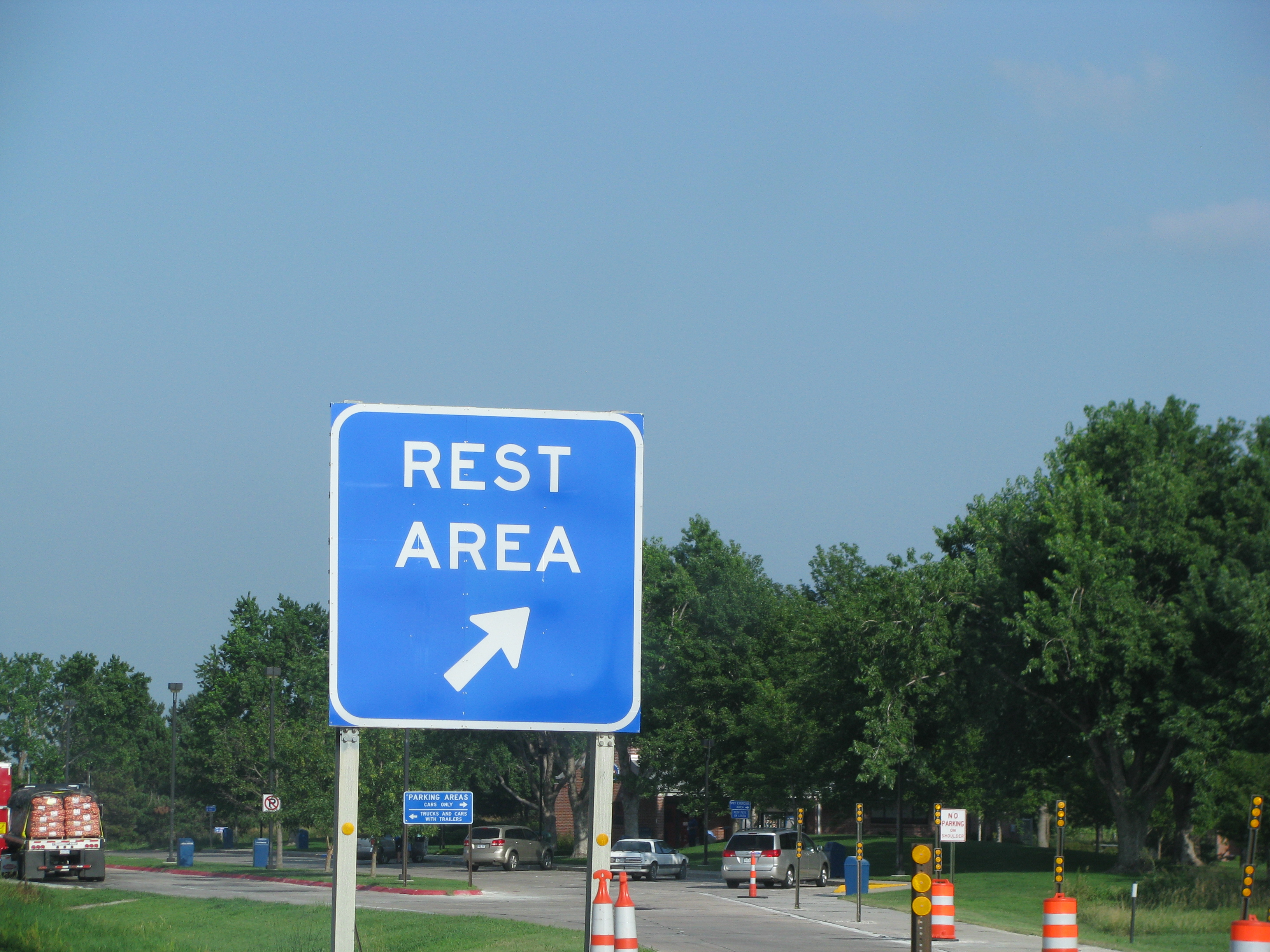 Grand Island Rest Area Eastbound along Interstate 80 in Hall County, Nebraska.